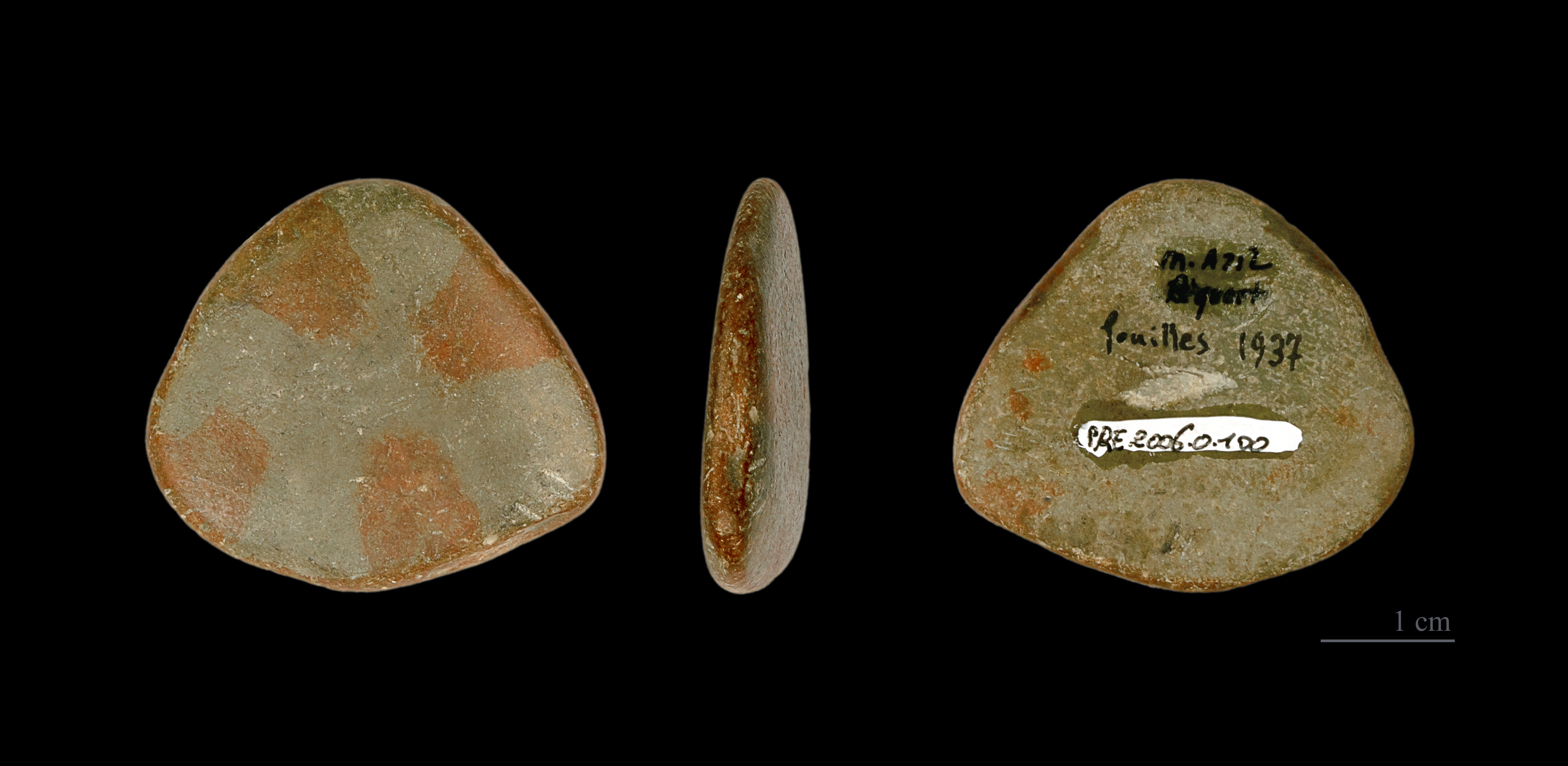 Painted pebble Stage : Azilian (from -12 000 Ma to – 9 500 ans befort present) Locality: Le Mas-d'Azil, Ariège department, France Former collection of French naturalist JEAN MIQUEL (1859-1940) Different views of the same specimen